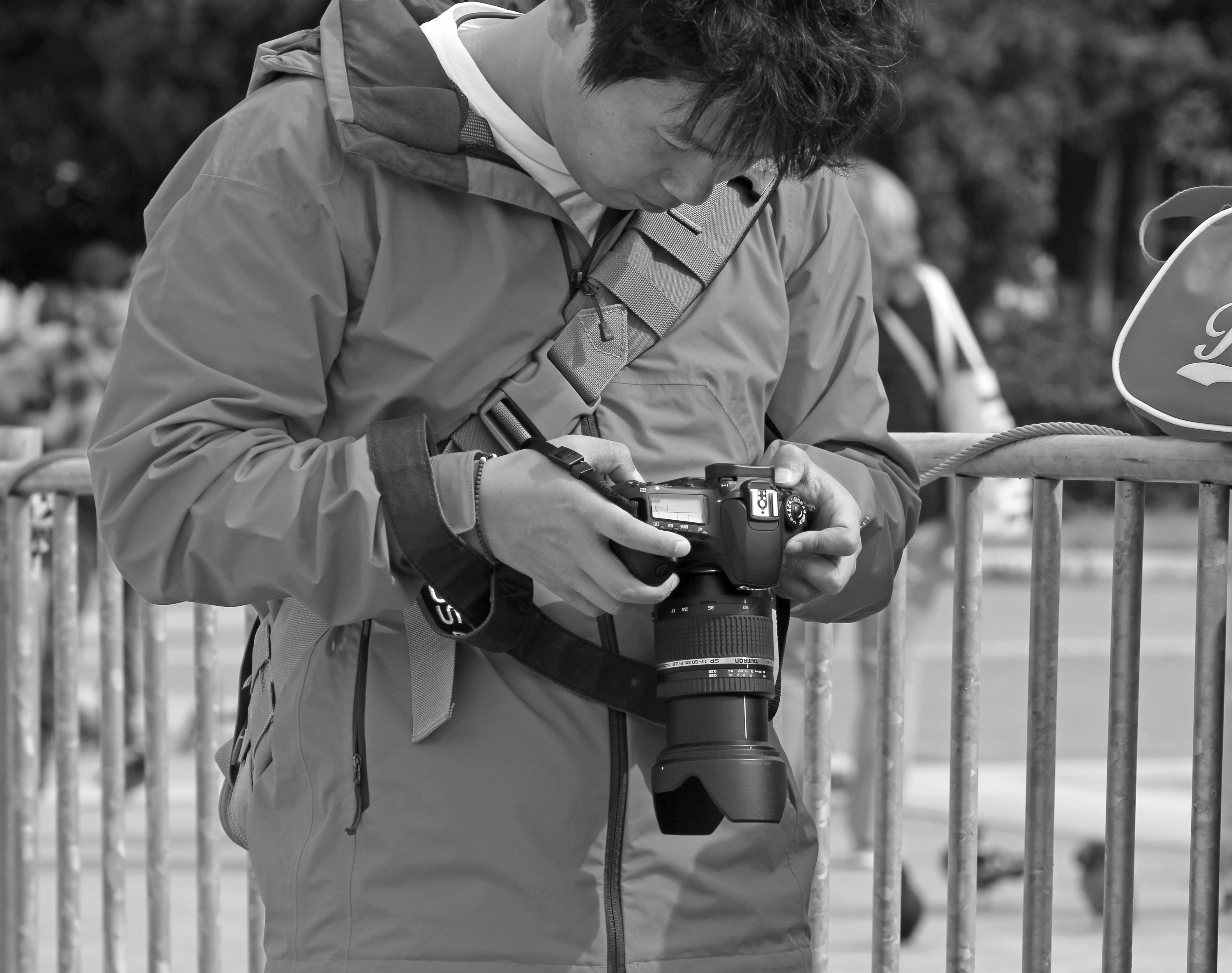 A tourist chimping on his Canon EOS 60D camera in Athens, Greece (with a Tamron 17-50 f/2.8 zoom lens). Chimping is what the photographers call the behavior or checking on the camera screen to see the photos you just took. Photographed in Syntagma on 6 October 2013, the same day the Nike company organized a sports event at the same location. Photographed with: Canon EOS 60D APS-C DSLR camera Canon EF 135mm f/2.8 Soft-focus lens 1/250 f/8 ISO-100 Exposure compensation: - 1EV Original camera JPEG in black and white (also color RAW), 18 megapixels Full-frame equivalent field of view: 135mm x 1.6 = 216mm Full-frame equivalent depth of field: f/8 x 1.6 = f/12.8 IMG_4872